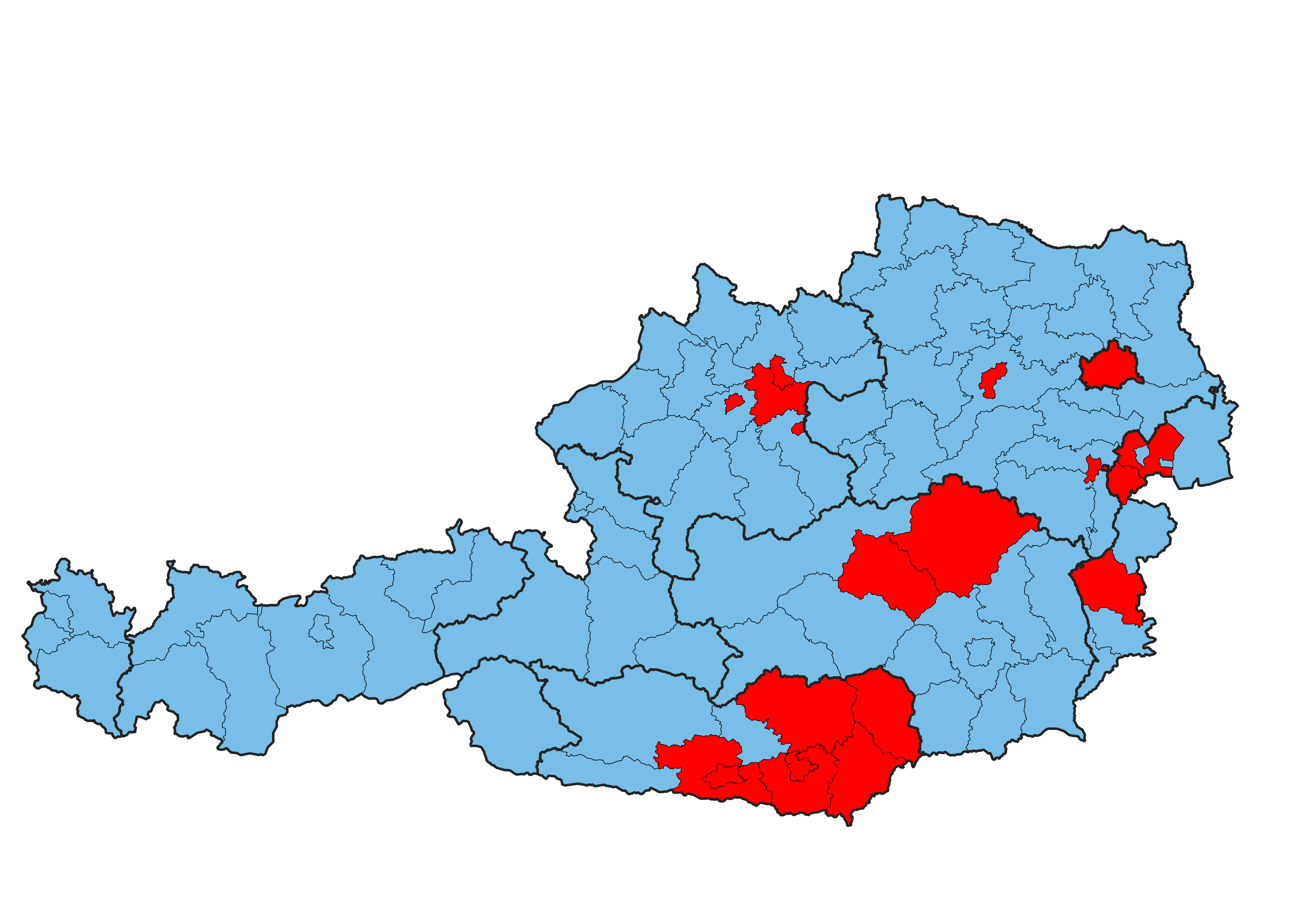 Each district is colored according to the party that received the most votes following the 2019 European Parliament elections in Austria